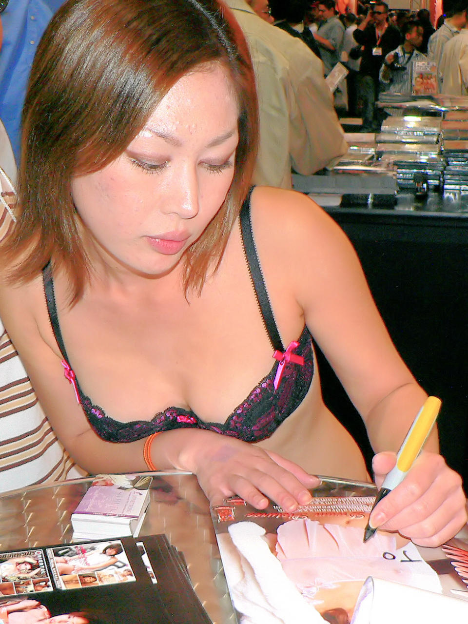 Haru Asahina signing autographs for her fans in the US.